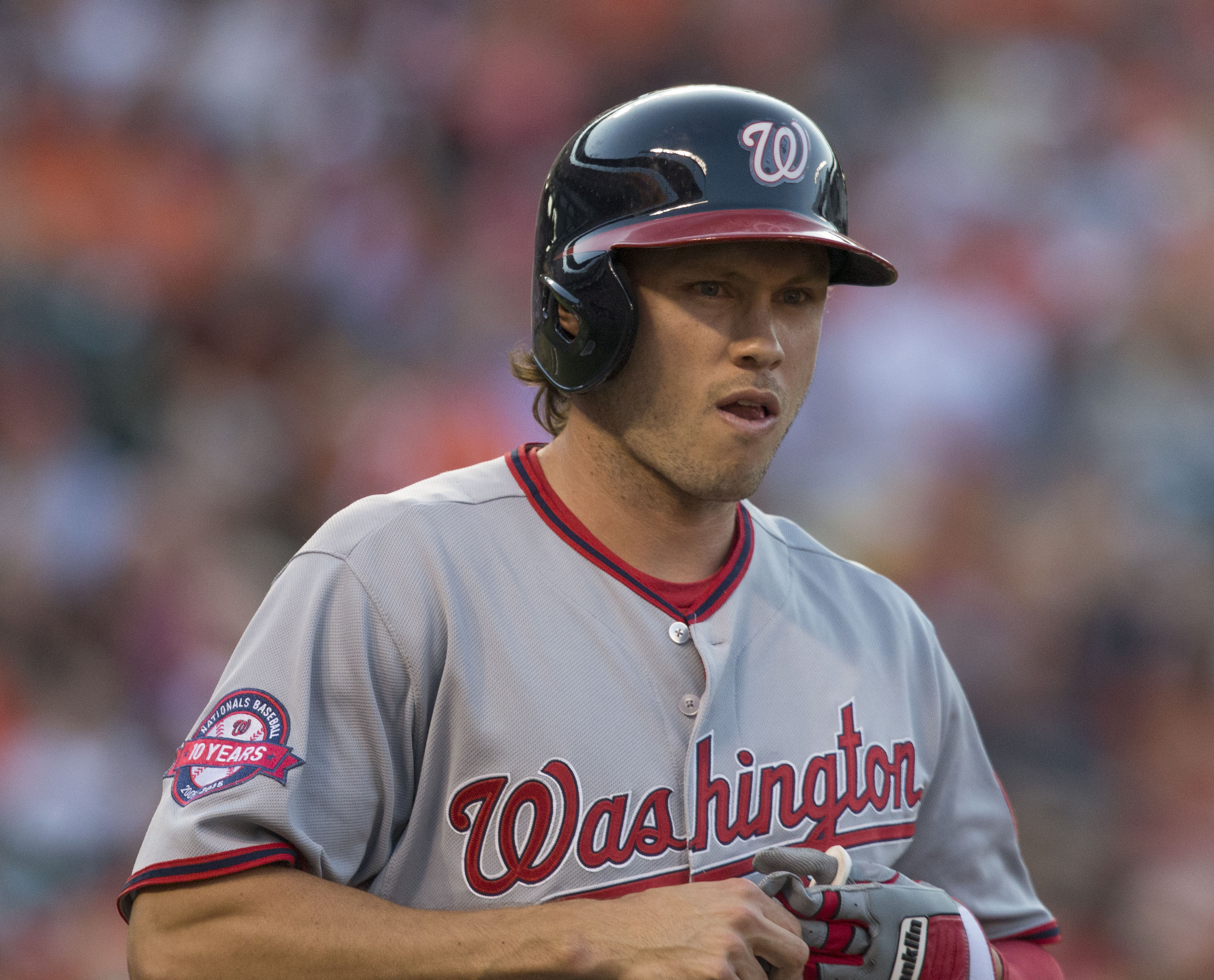 Nationals at Orioles 7/11/15